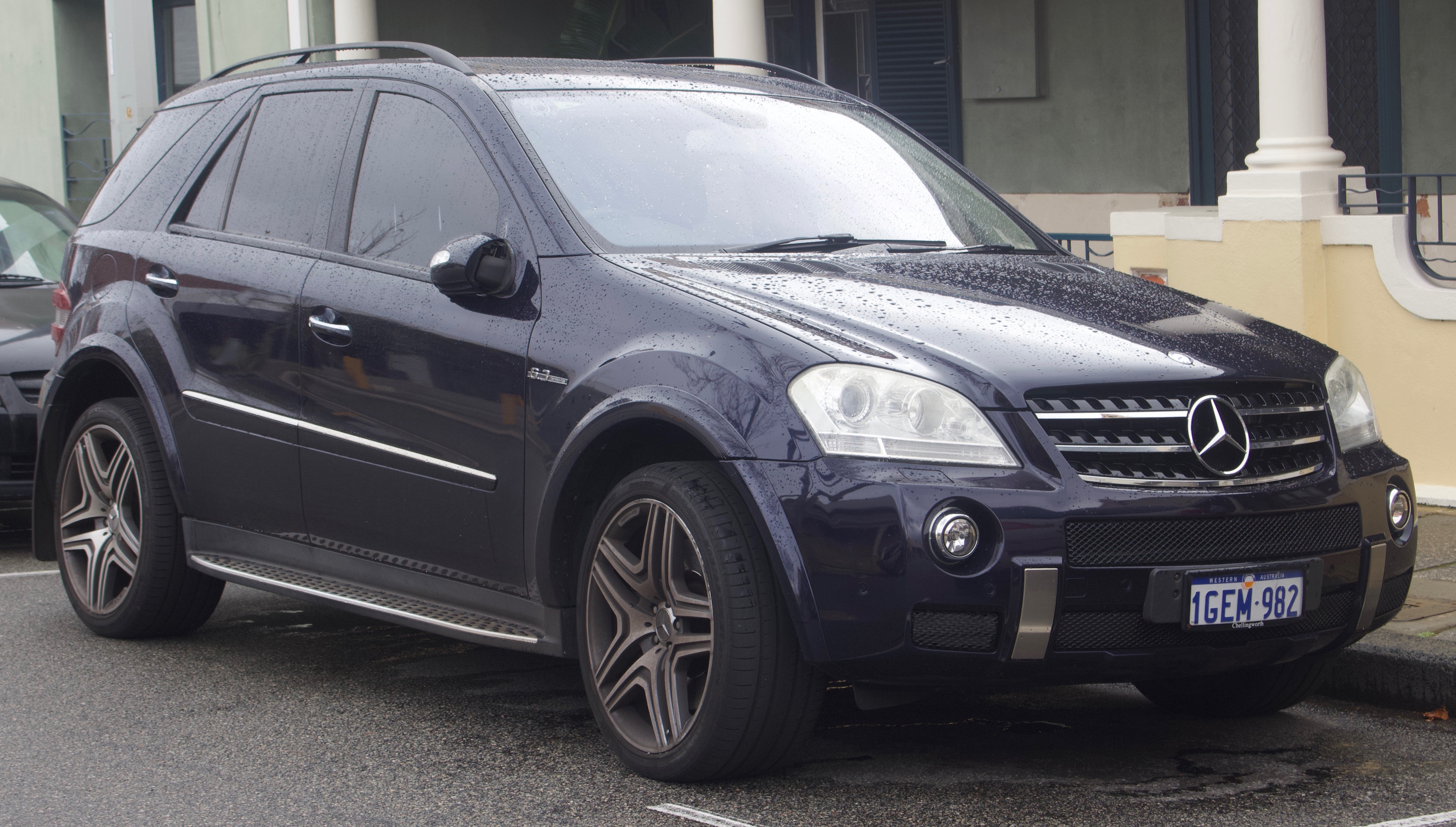 2006-2008 Mercedes-Benz ML 63 AMG (W 164) wagon. Photographed in Fremantle, Western Australia, Australia.